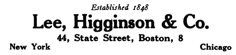 Lee, Higginson & Co.Historical logo from 1922. This is used for identification of the defunct organization no longer in use